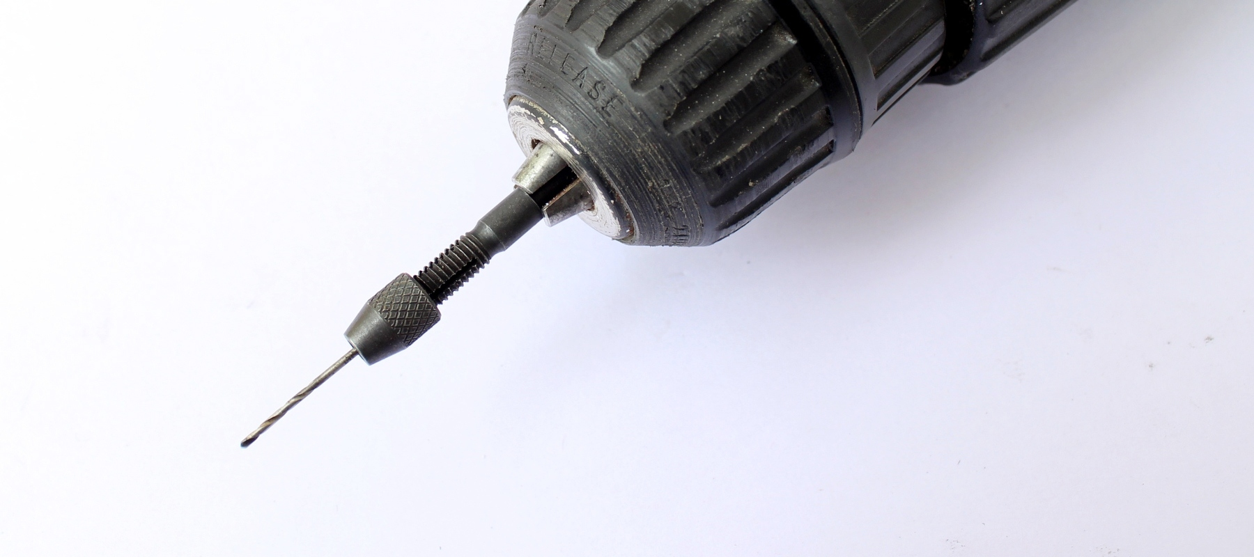 Adopter drill chuck for pcb drilling